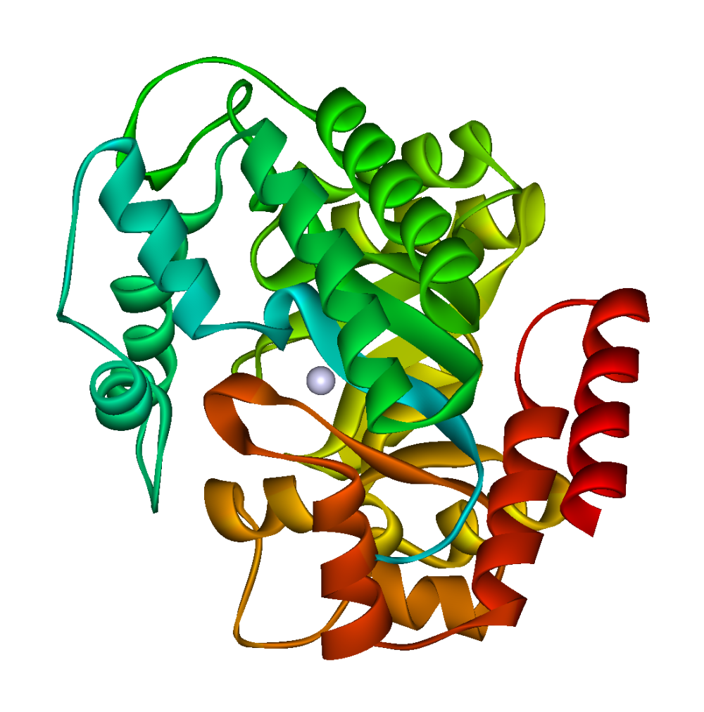 Ribbon diagram of bovine adenosine deaminase.Created using Accelrys DS Visualizer Pro 1.6 and the GIMP.